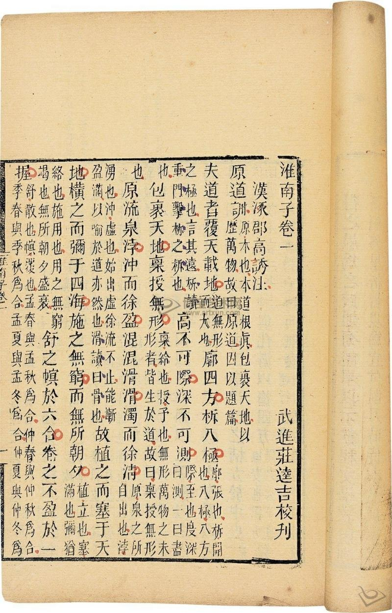 The Zhang edition of Huainanzi